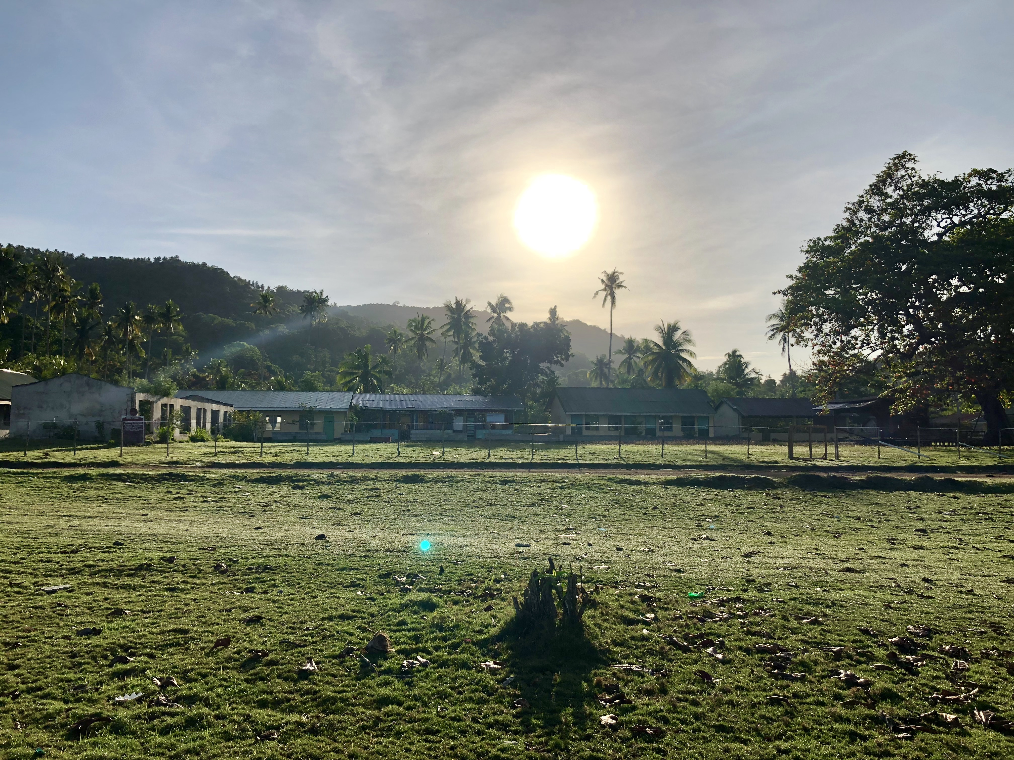 A magnificent view of sunrise from the Municipality of Lugus, Sulu.